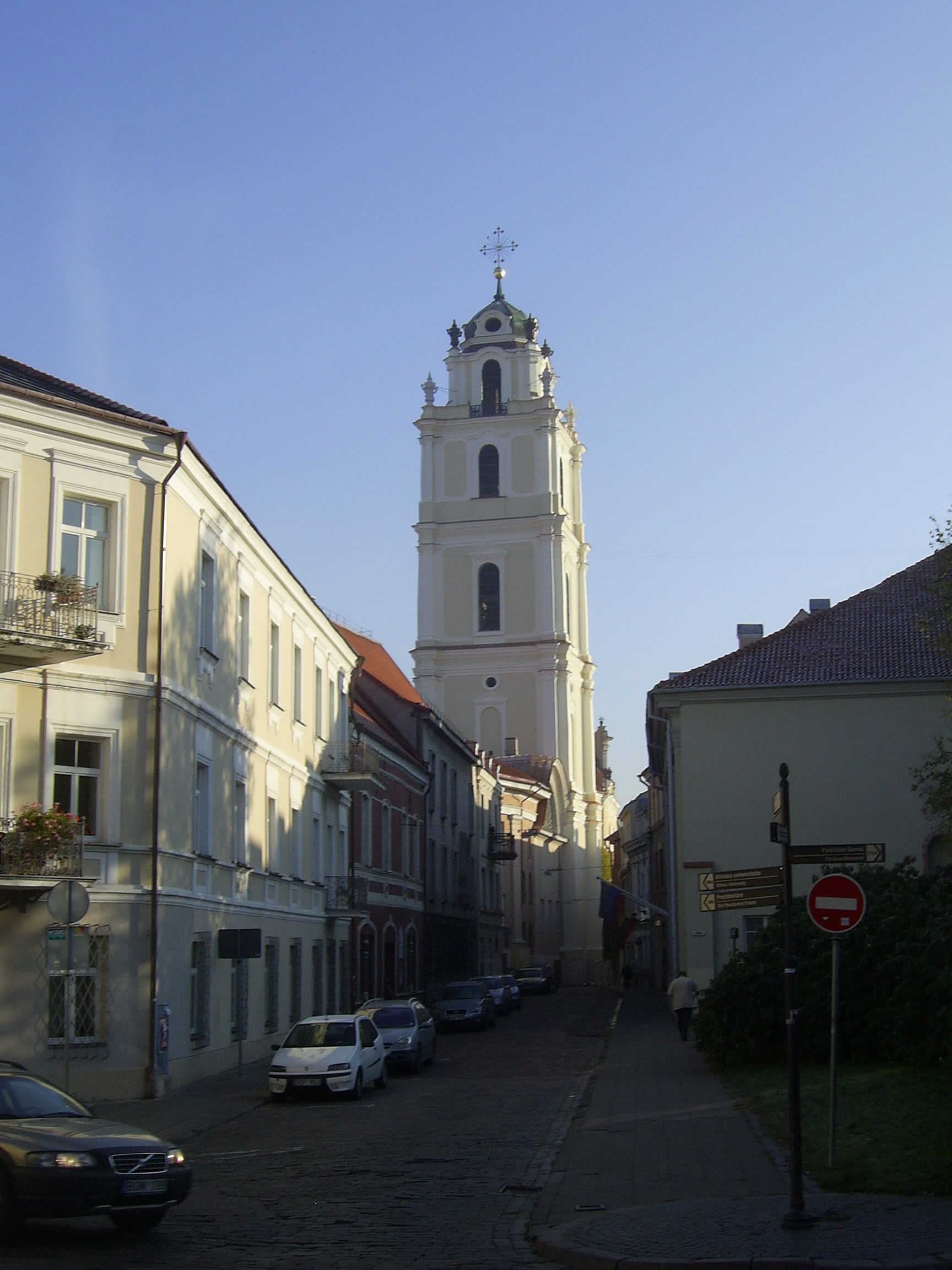 The Tower of St John's Church